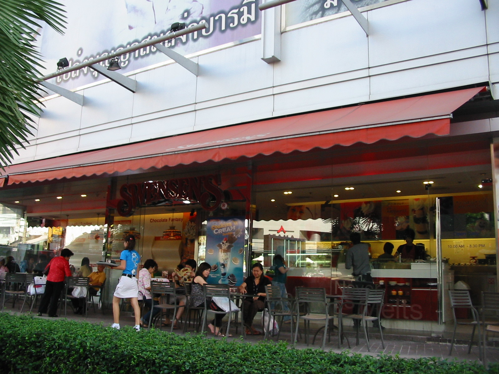 Swensen's at The Platinum Fashion Mall ,bangkok, Thailand.